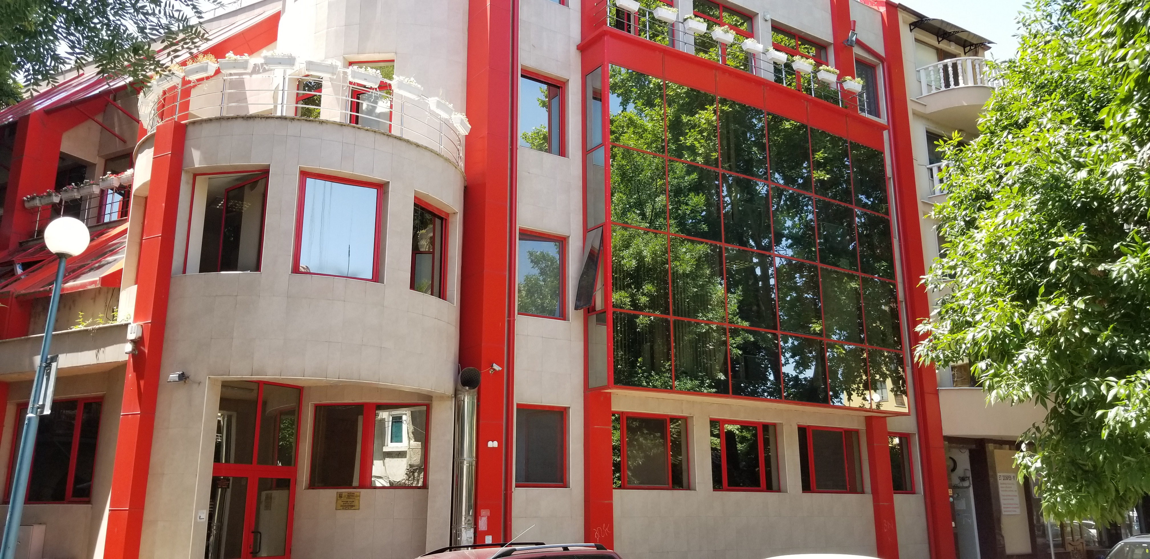 City Hall Maritza, Plovdiv